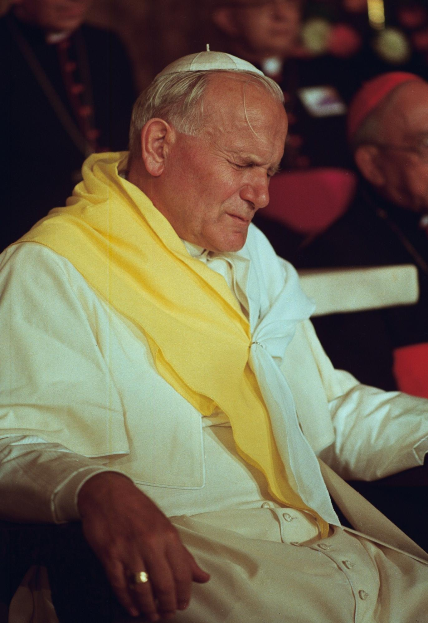 John Paul II in Cali, Colombia.